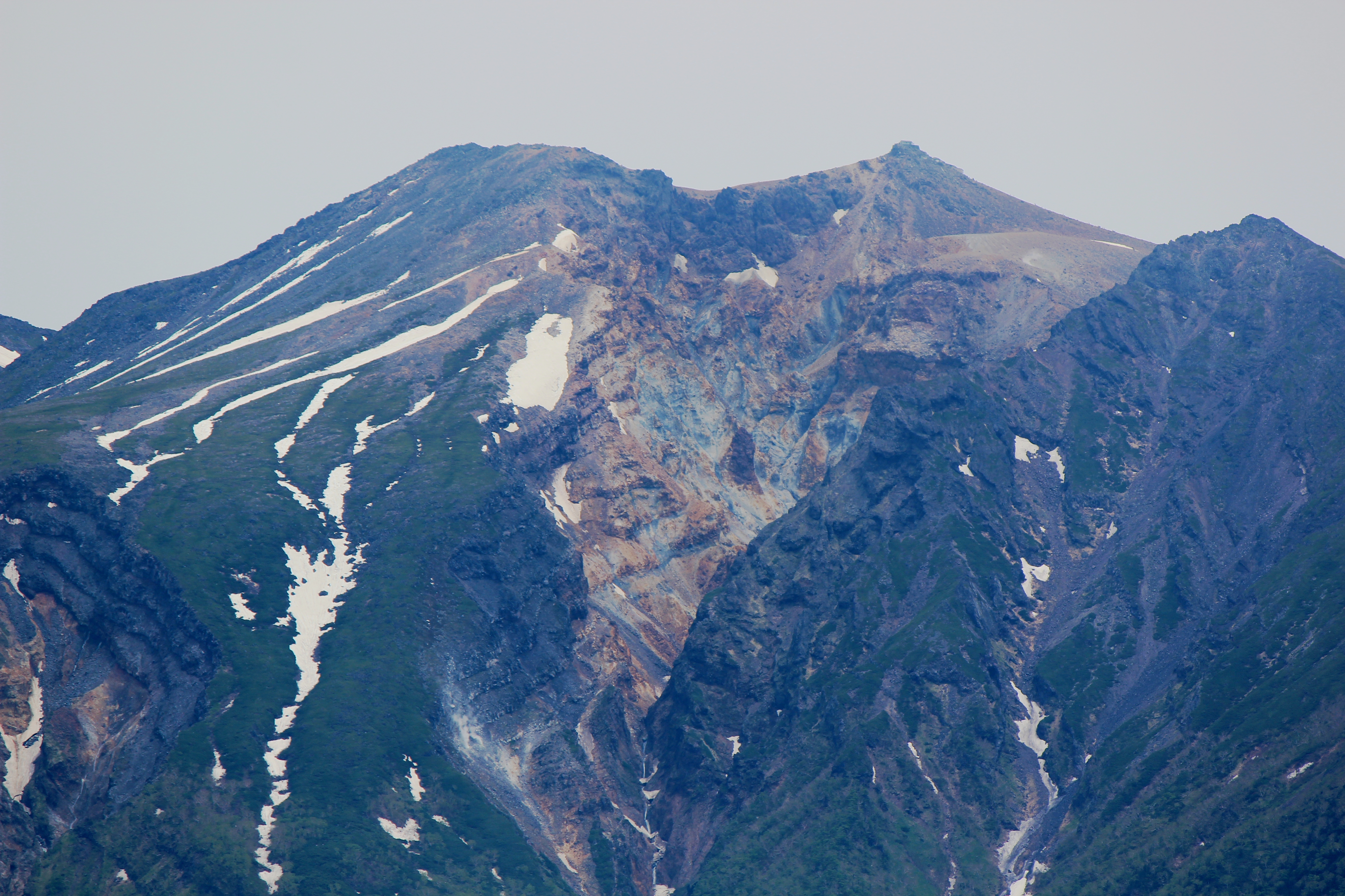 Mount Ontake from Mount Kohide